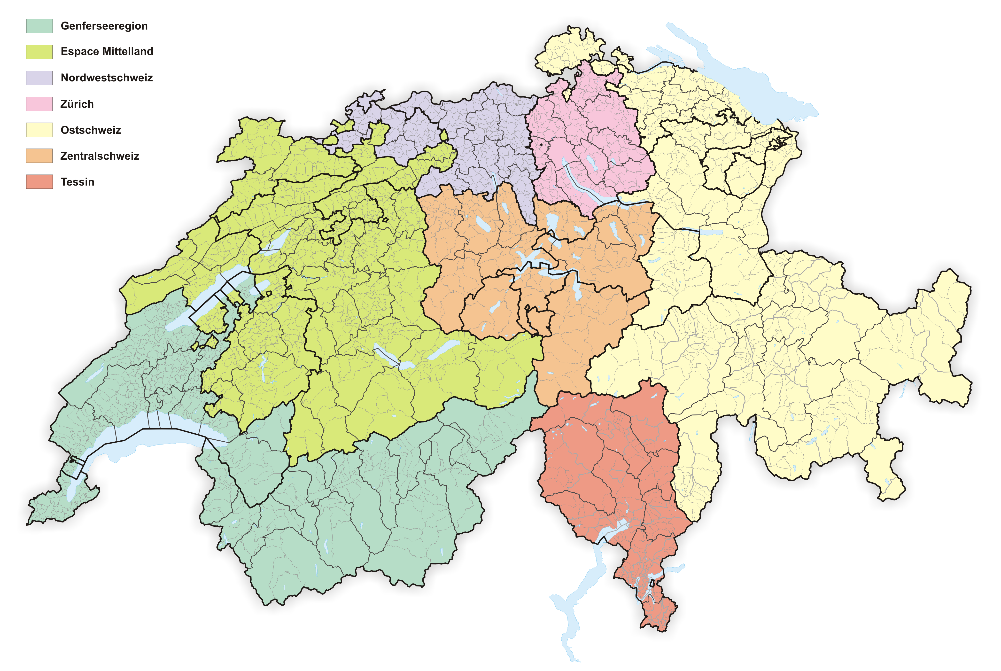 Large regions in Switzerland 2009